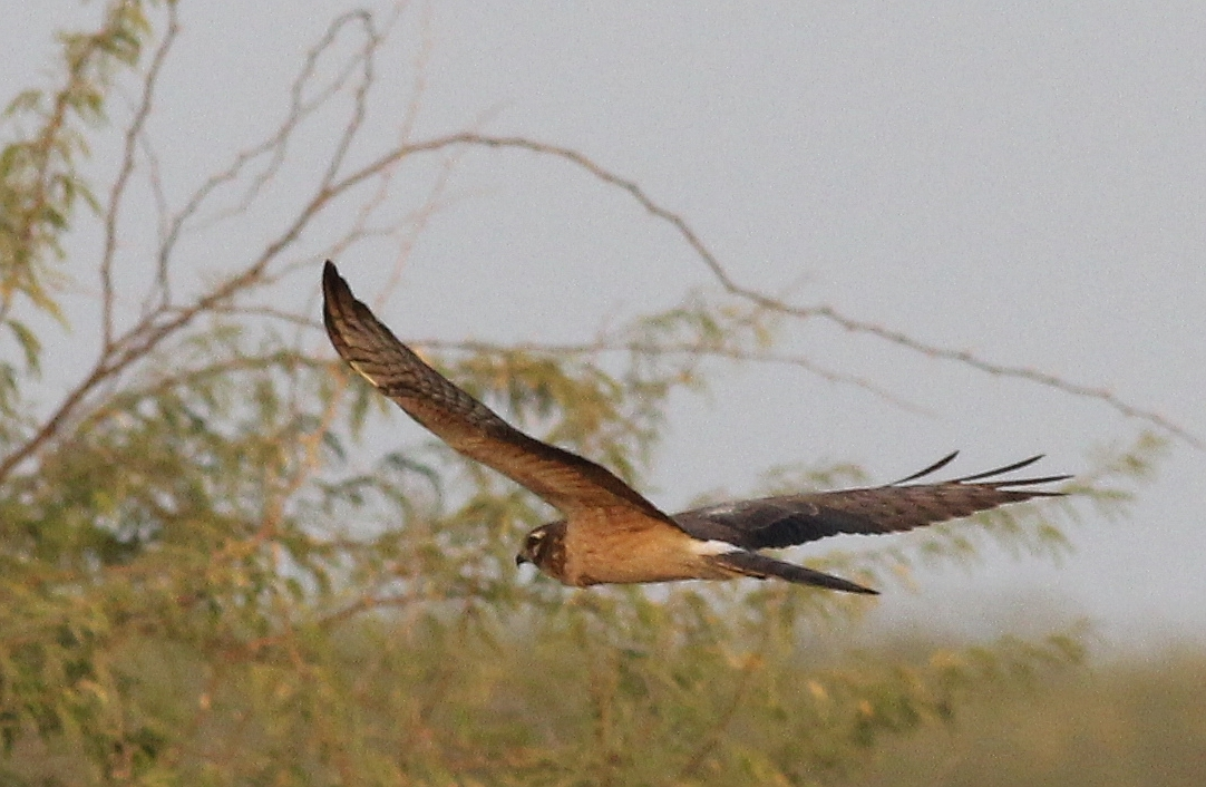 A juvenile Montagu's Harrier in flight, Little Rann of Kutch, India.